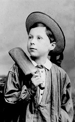 From his Aunt Agatha's photo album. This picture was taken at Pembroke Lodge where Russell was privately educated until going up to Cambridge in 1890.